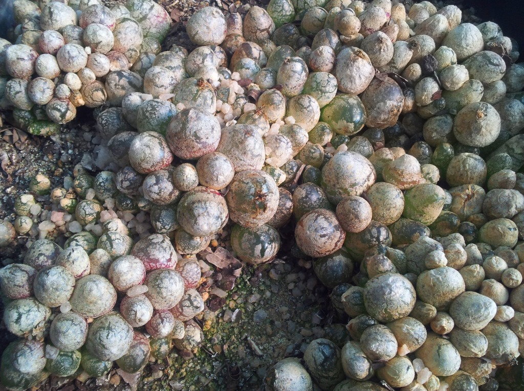 Conophytum burgerii in cultivation